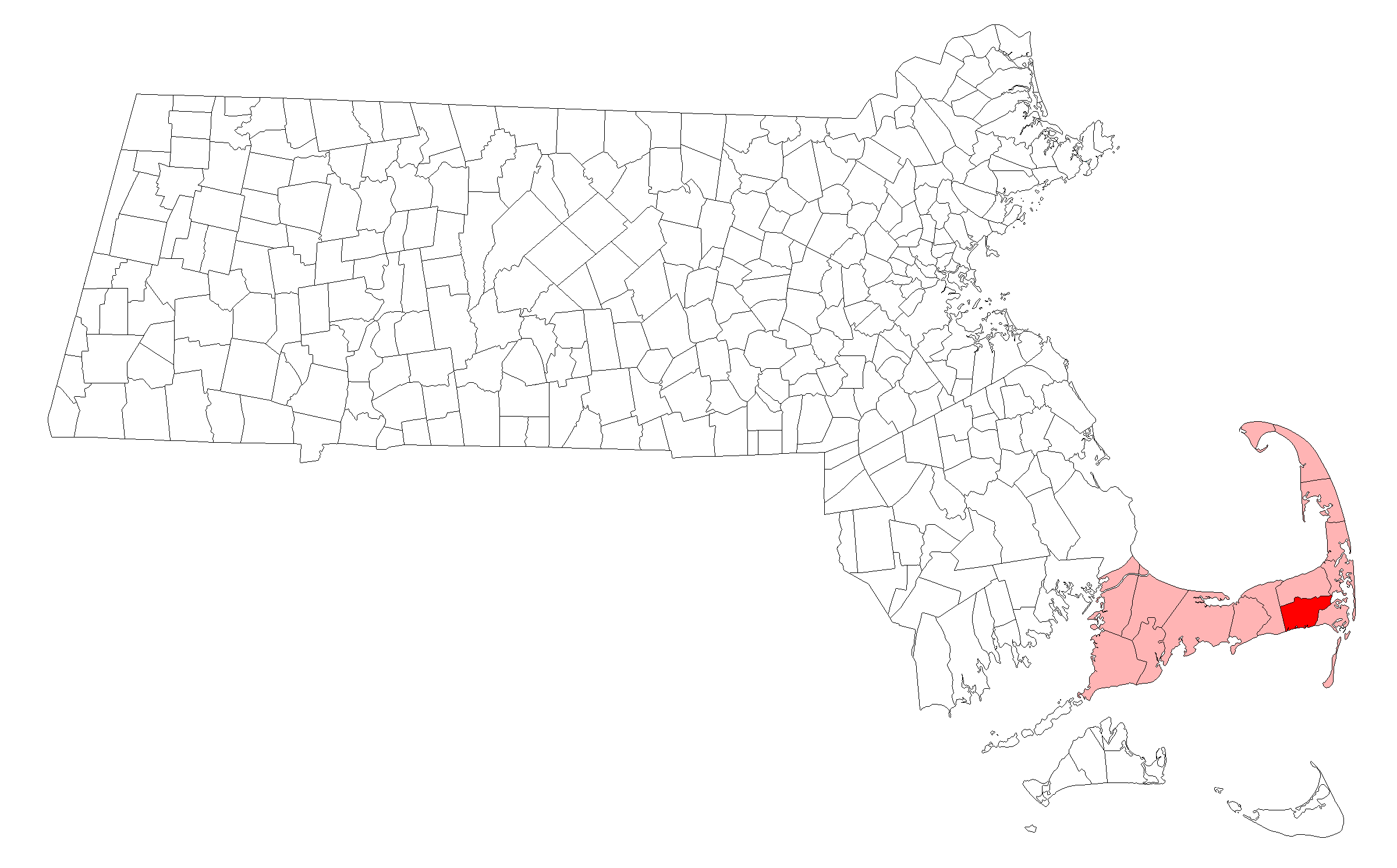 Location of Harwich within Barnstable County, MA